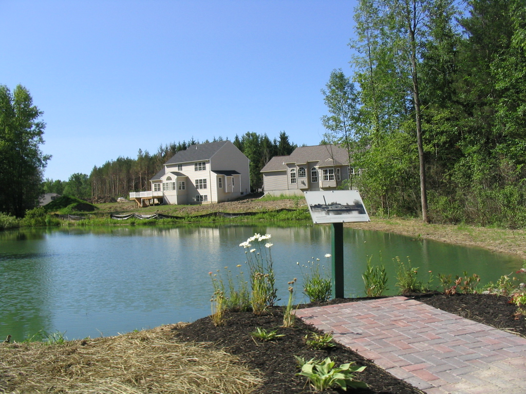 photo of a Champlain on the Lake neighborhood in Brewerton, NY, taken by me on June 23, 2004